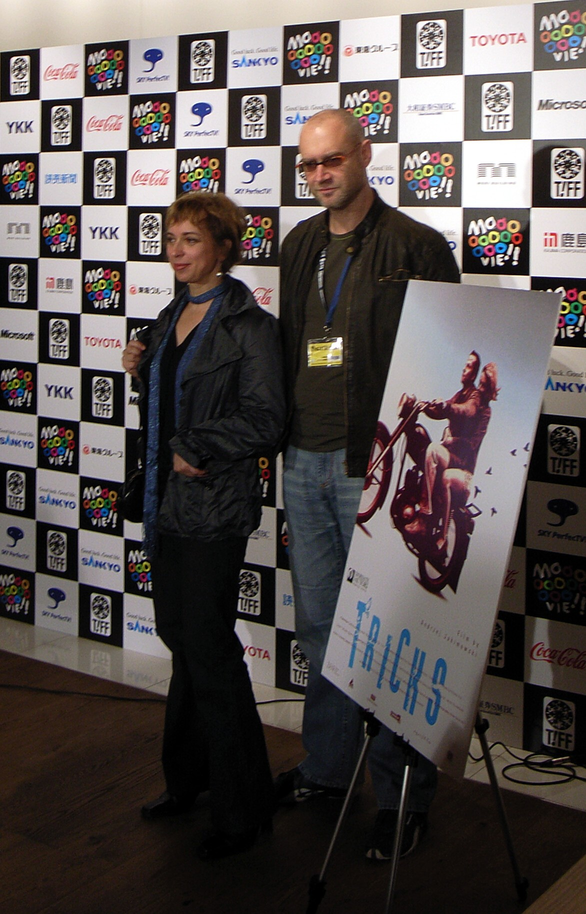 Andrzej Jakimowski and Ewa Jakimowska after a conference about their film Tricks at the TIFF.